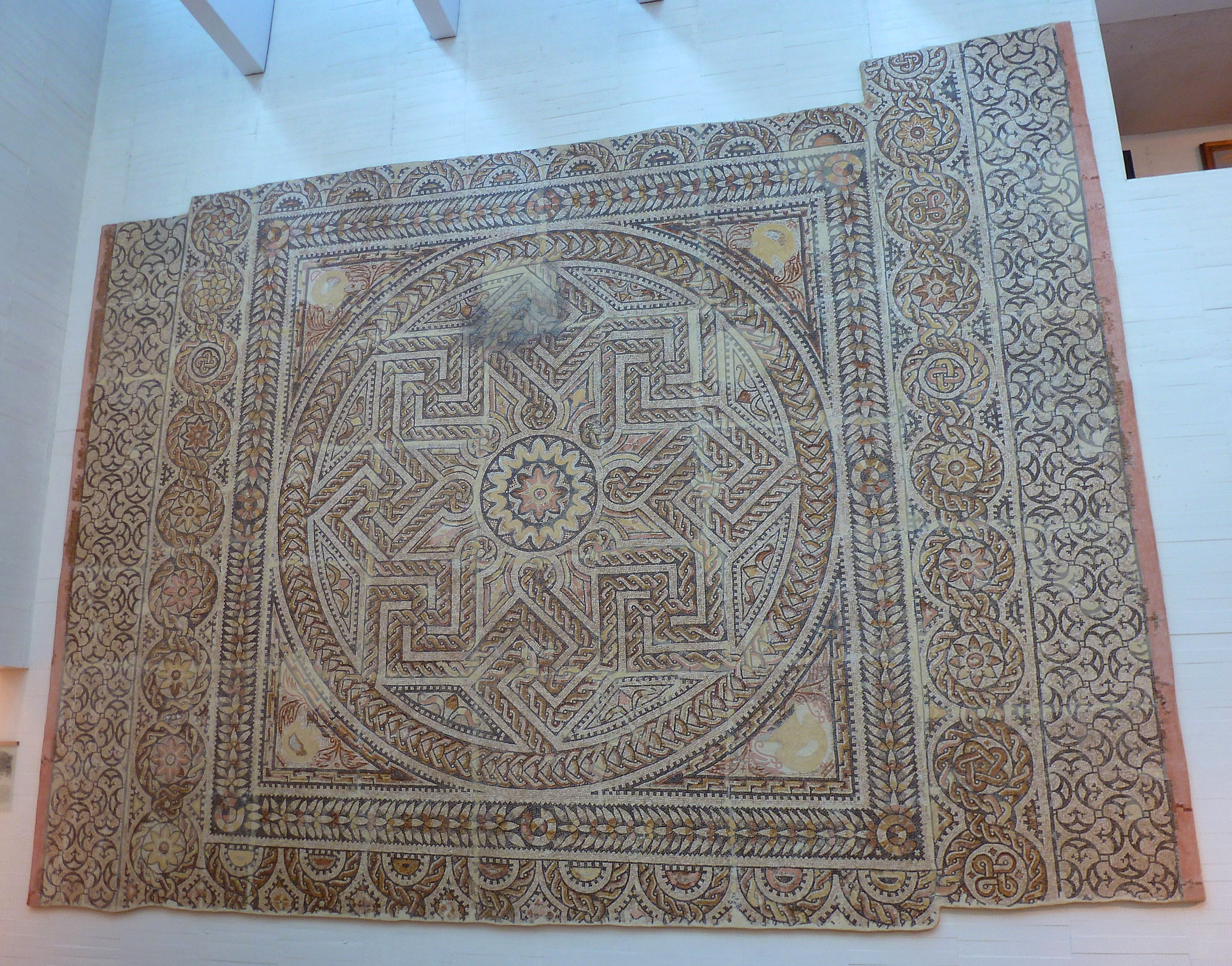 Mosaic from the roman villa of Requejo, Museum of Zamora, Spain.